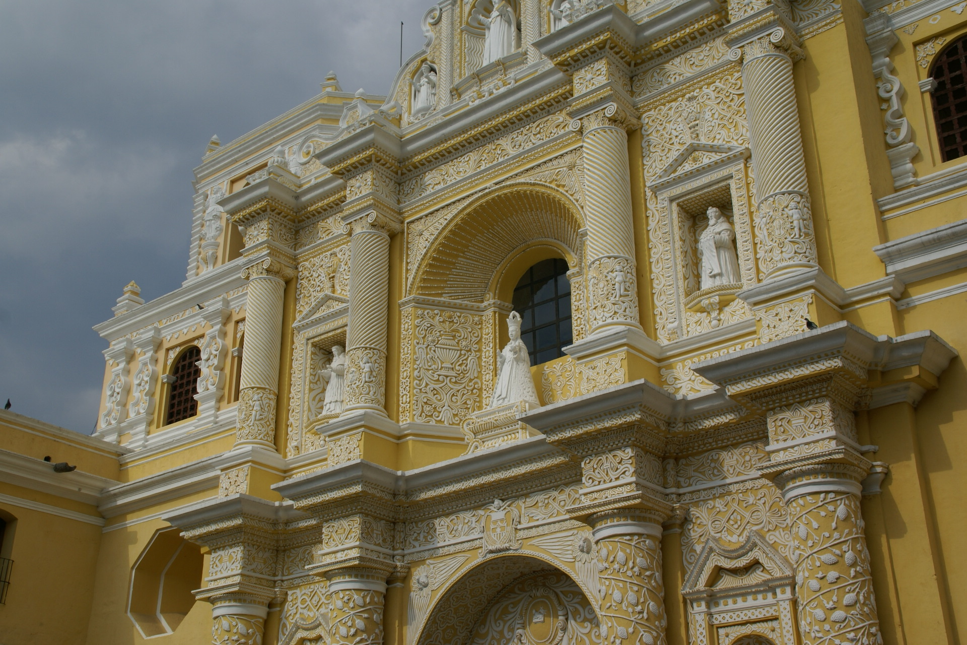 Facade of La Merced Church in Antigua Guatemala